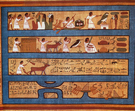 Book of the Dead: Depiction of the Field of Reeds from the Papyrus of Ani